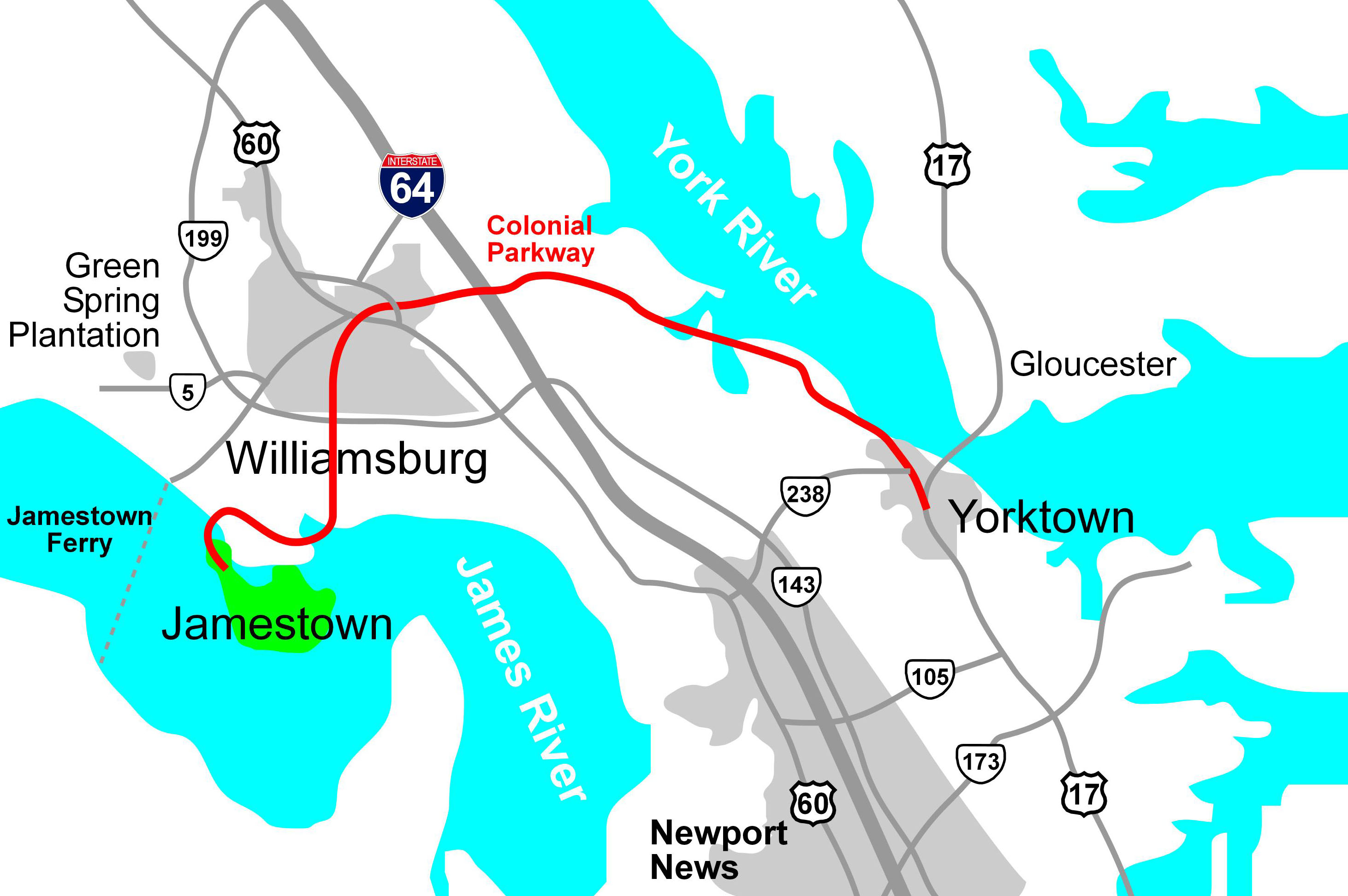 Map of the Colonial Parkway, a National Scenic Byway within Colonial National Historical Park in Virginia, drawn in Macromedia Freehand.